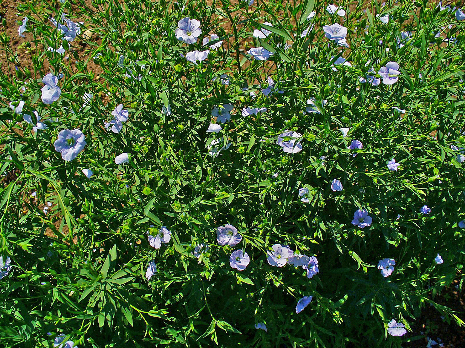 Linum usitatissimum, Linaceae, Flax, Linseed, habitus. The fresh, aerial parts of blooming plants are used in homeopathy as remedy: Linum usitatissimum (Linu-u.)